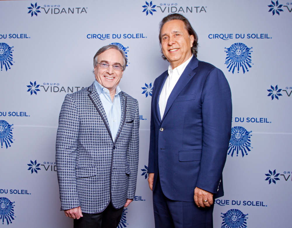 Daniel Chavez Moran with Daniel Lammare from Cirque du Soleil